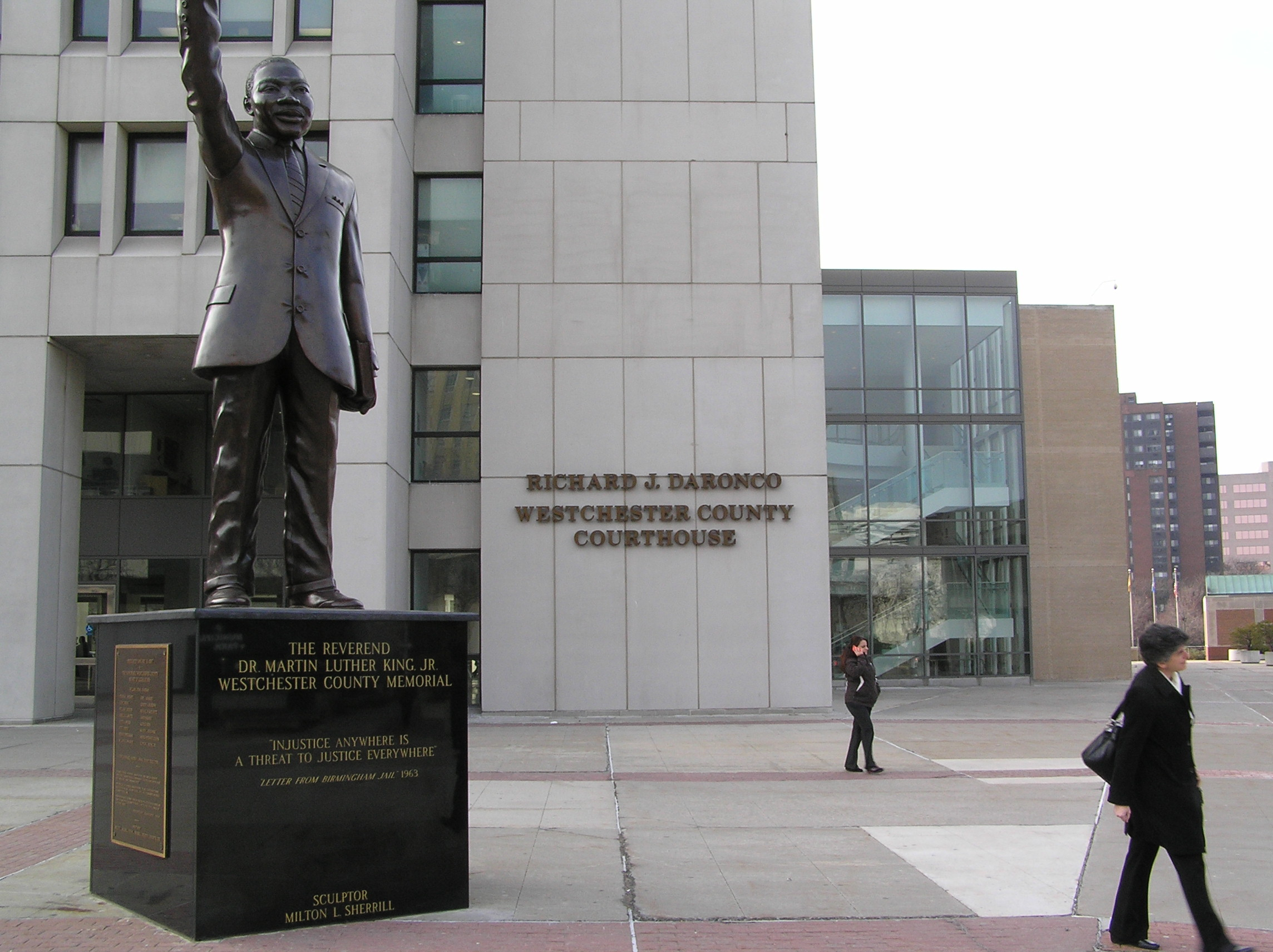 A photograph of the Richard J. Daronco Courthouse in White Plains, Westchester County, New York